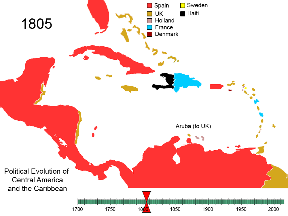 Political Evolution of Central America and the Caribbean